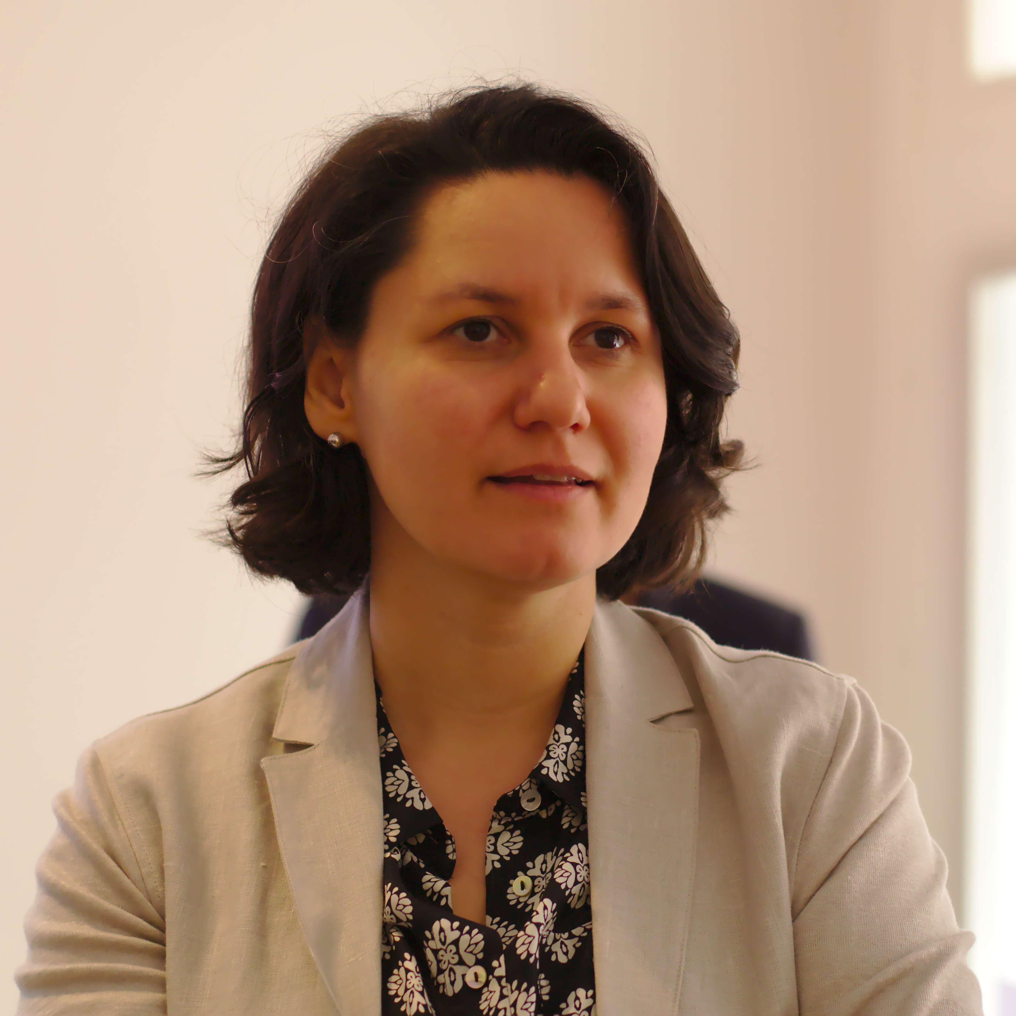 Borough mayor Veronika Mickel-Göttfert during her visit at Wikimedia Österreich office in April 2017.